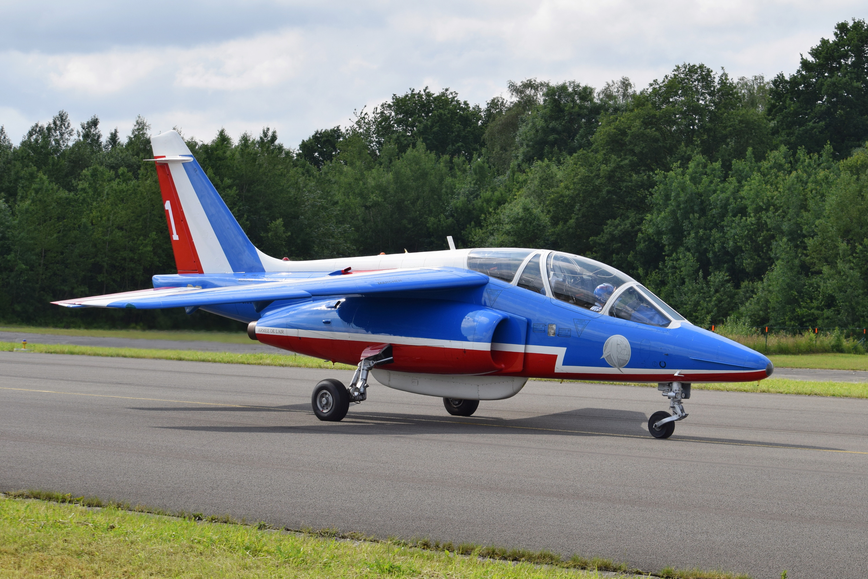 No. 1 of the Patrouille de France participating at the Belgian Air Force Days 2016, Florennes Air Base